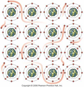 metallic bond